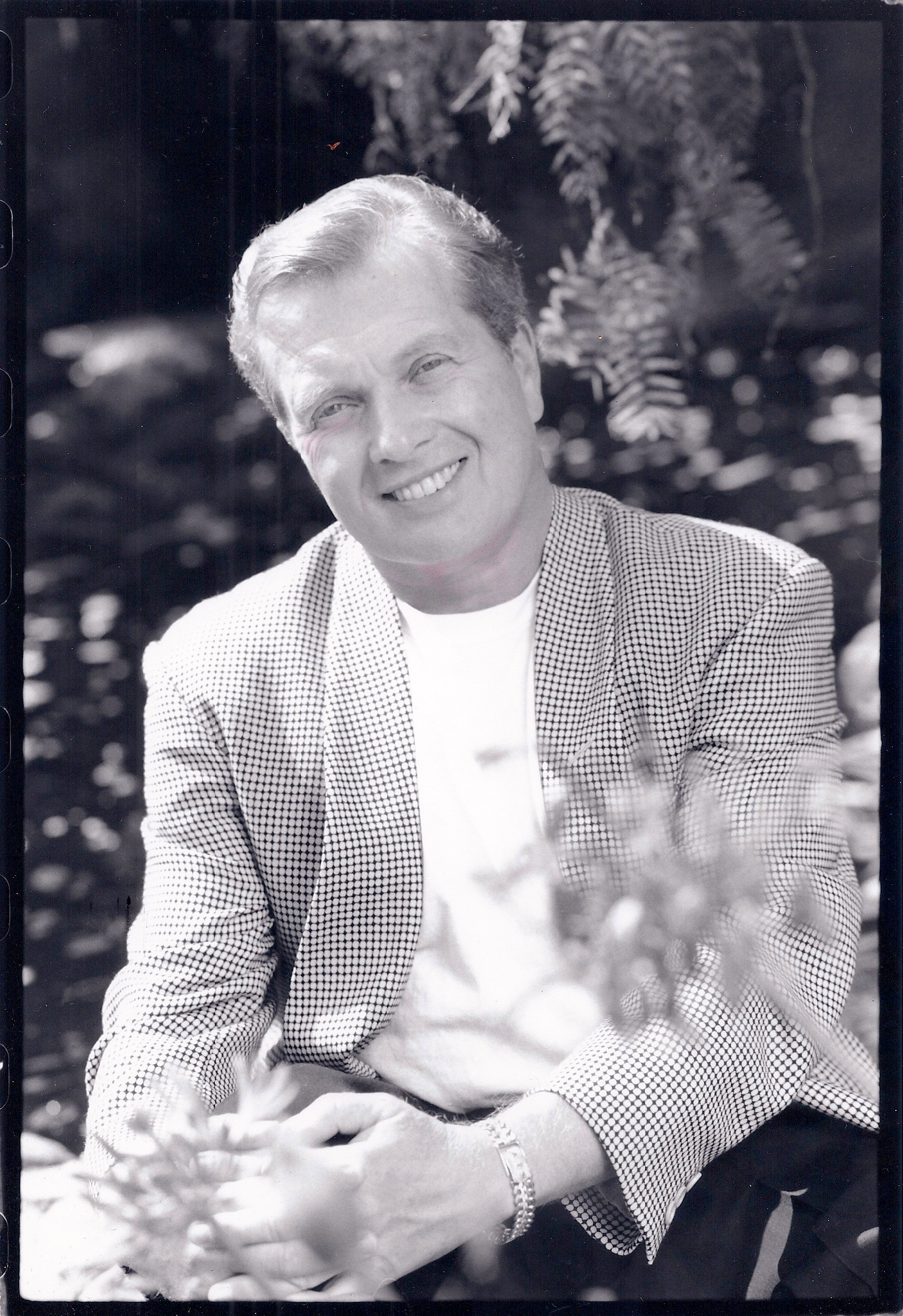 Photograph of Albert Stern